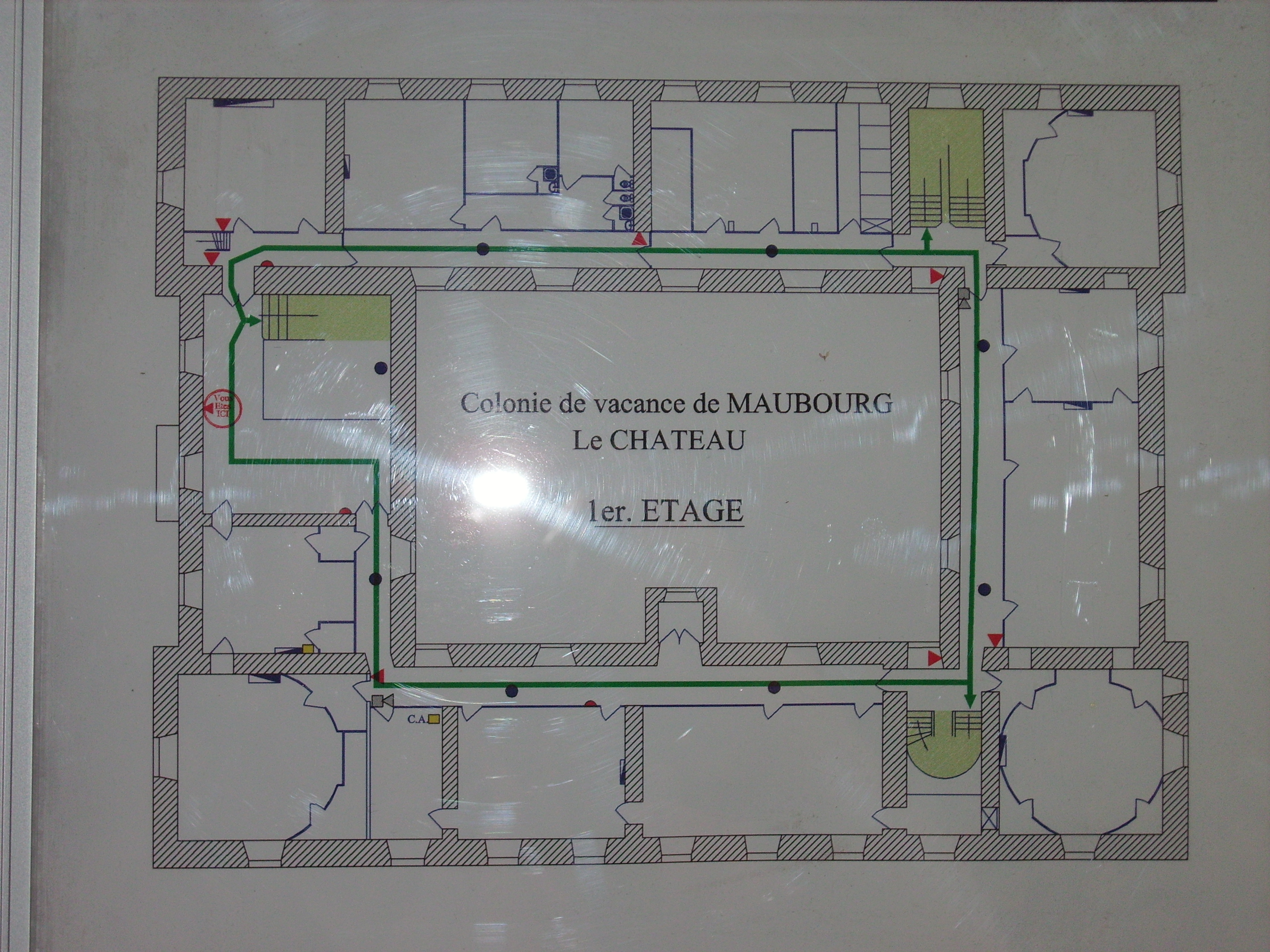 Floor plan of the Château de Maubourg